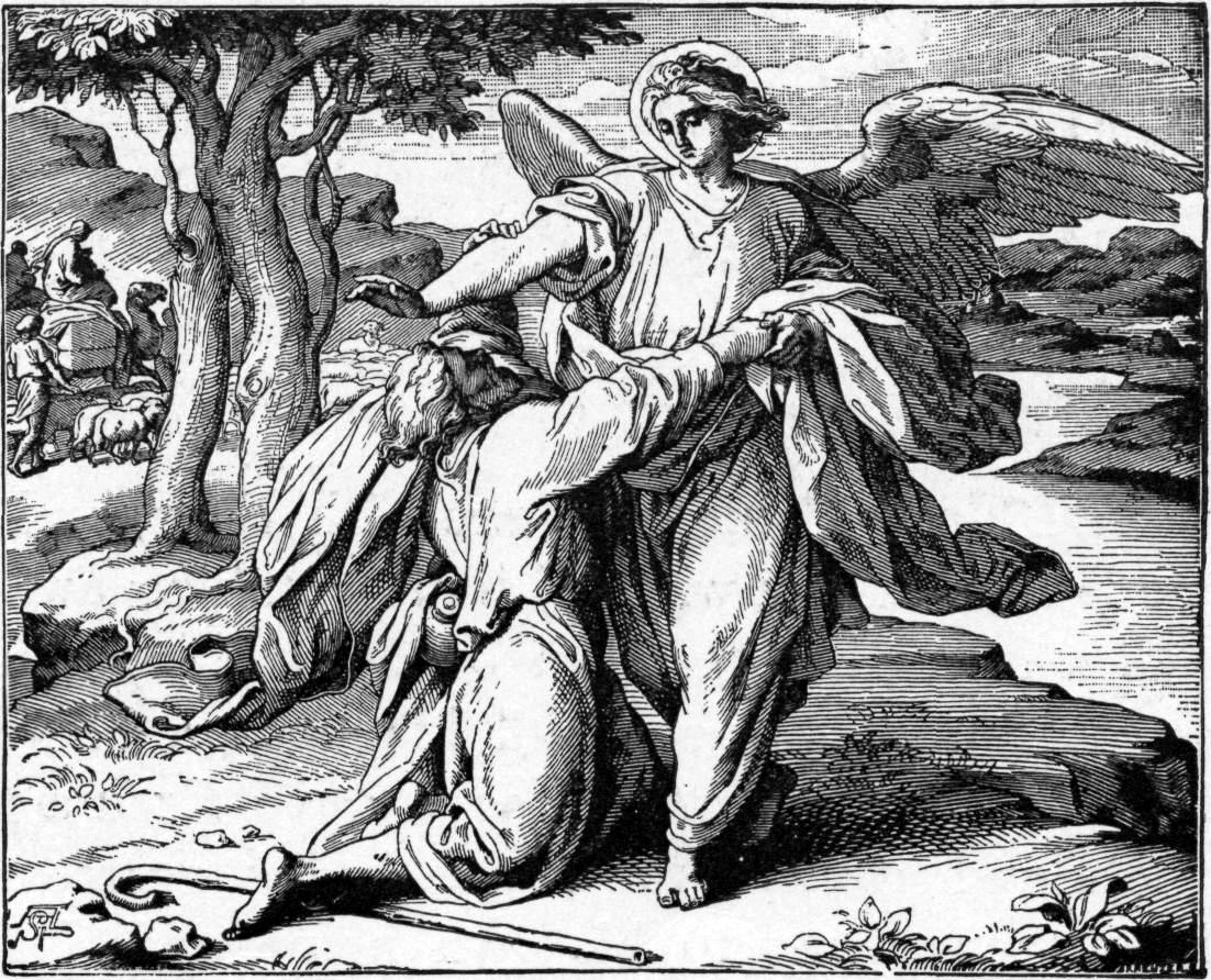 Jacob Wrestled with an Angel; caption: "God has sent an angel to Jacob. Jacob is all alone. He sees the angel, but he is not afraid. He puts his arms around him and will not let him go. He begs the angel to bless him. And the angel lifts up his hand over Jacob's head, and blesses him." Illustration from the 1897 Bible Pictures and What They Teach Us: Containing 400 Illustrations from the Old and New Testaments: With brief descriptions by Charles Foster